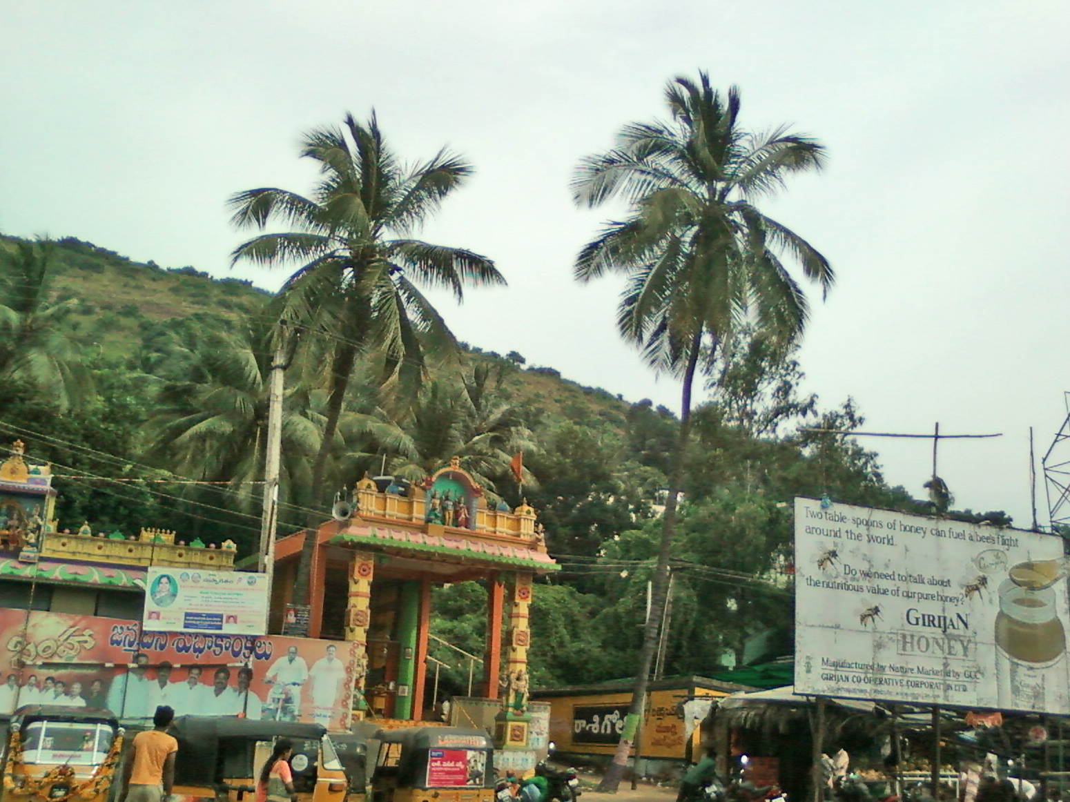 View at Venkojipalem in Visakhapatnam